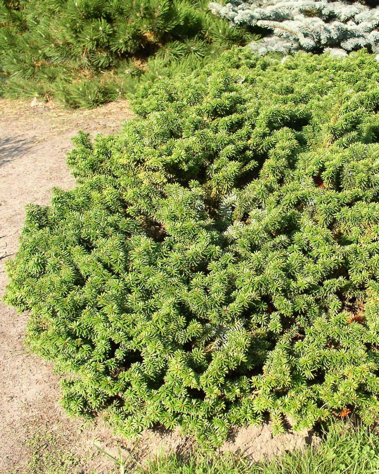 Balsam Fir 'Nana', Botanical garden PAN, Powsin, Warsaw